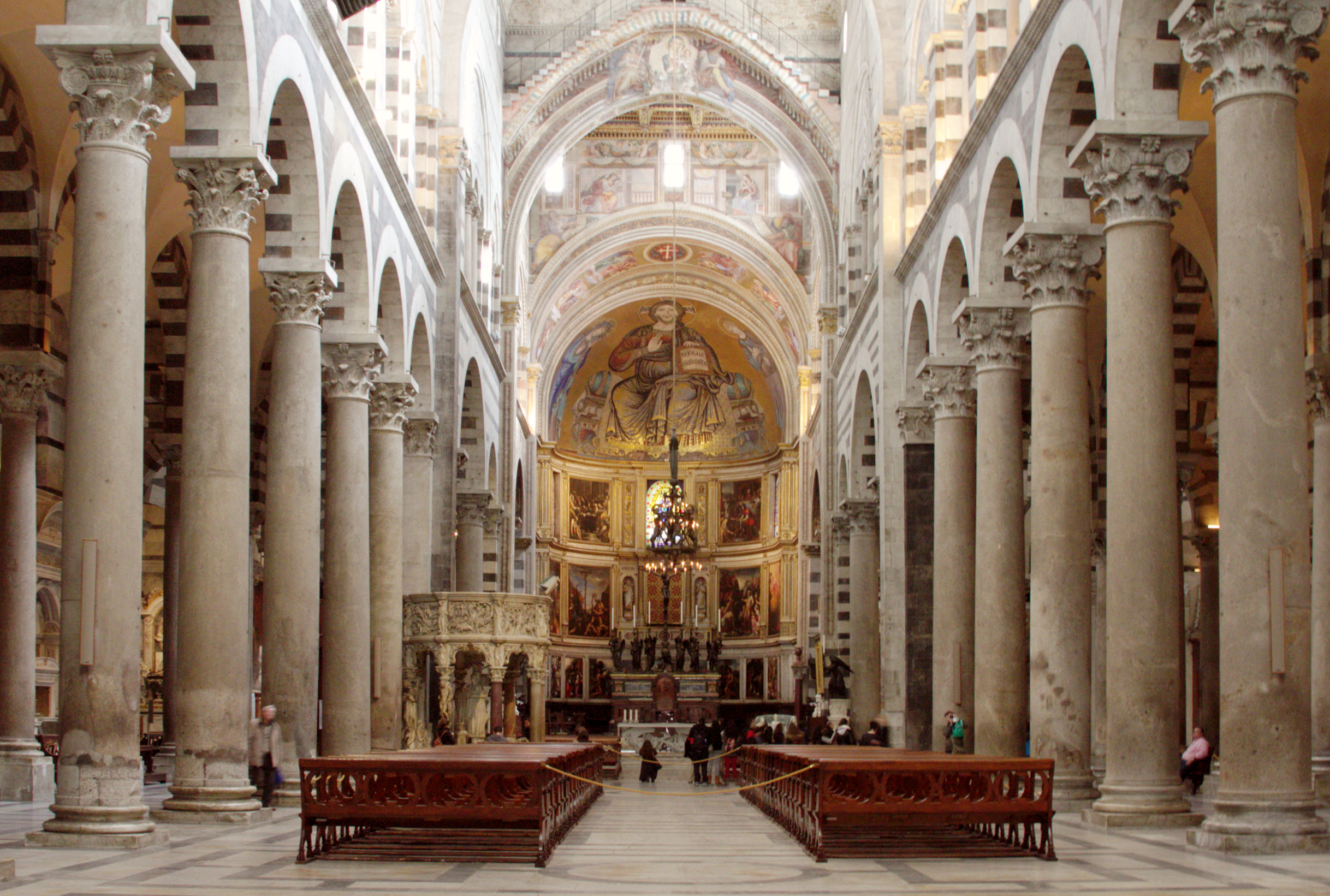 Duomo - Pisa